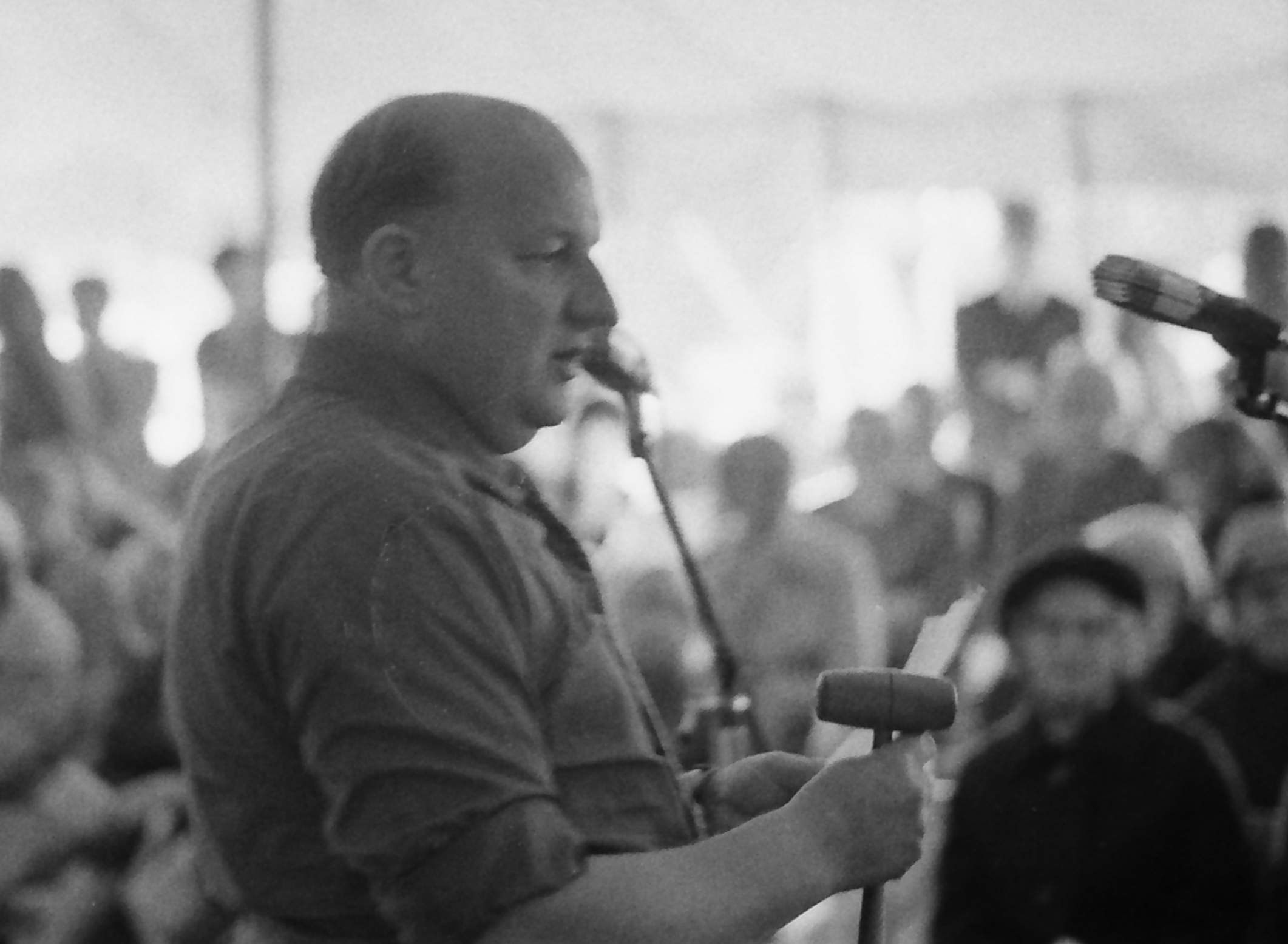 Auctioneer and member of the Swedish parliament Karl-Erik Eriksson